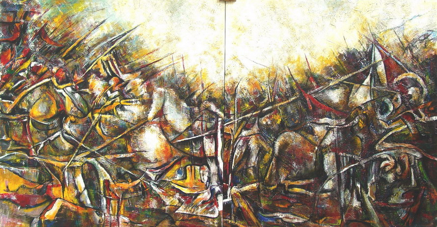 Alexander the Great in Issos, painting by Diamantis Staggidis